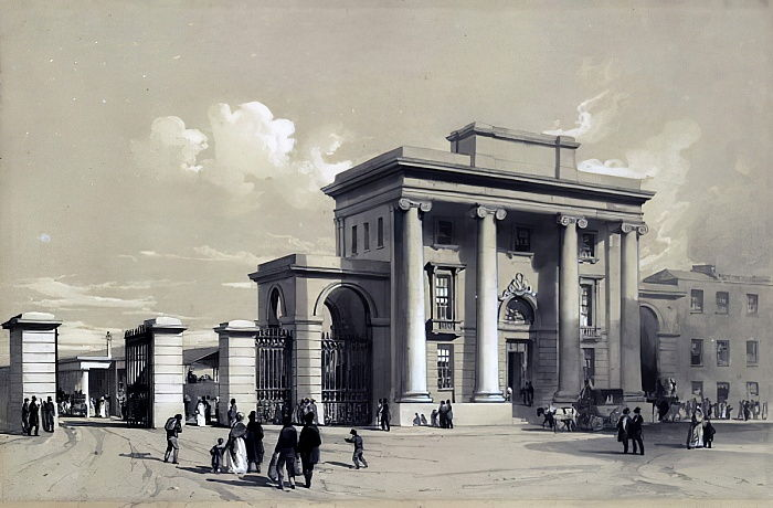 View of the Birmingham Station by John C. Bourne, 1837